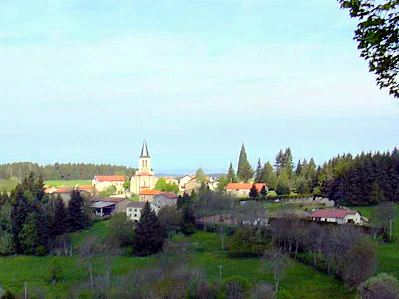 General view of the bourg of Aix-la-Fayette (Puy-de-Dôme, Auvergne, France).